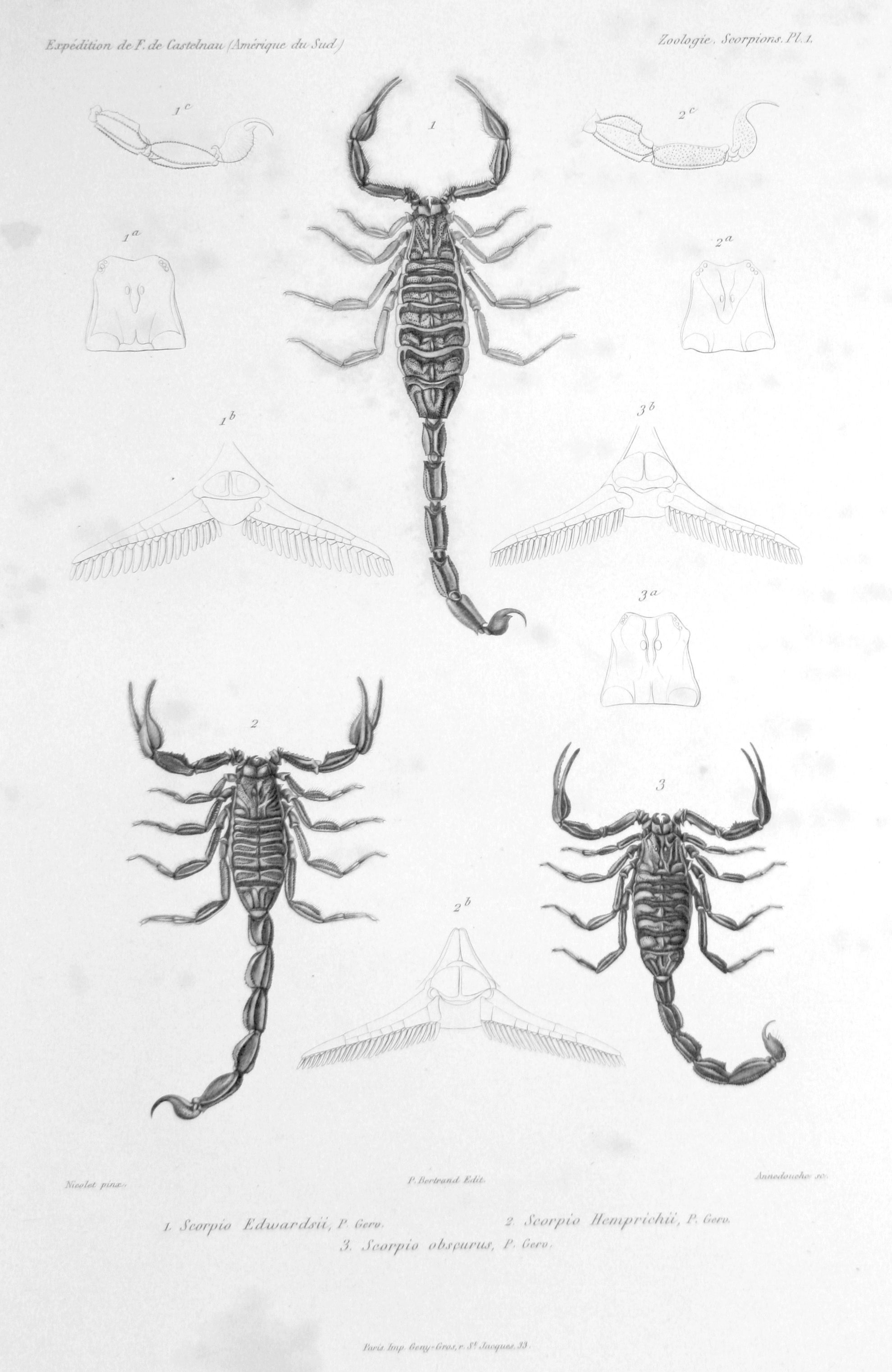 (top): Scorpio Edwardsii P. Gerv. = Centruroides margaritatus (Gervais, 1841) (1a: head from above, 1b: pectines, 1c: end of tail) (left): Scorpio Hemprichii P. Gerv. = Rhopalurus junceus (Herbst, 1800) (2a: head from above, 2b: pectines, 2c: end of tail) (right): Scorpio obscurus P. Gerv. = Tityus obscurus (Gervais, 1843) (3a: head from above, 3b: pectines)